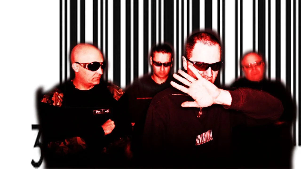 sdfsdfdsf